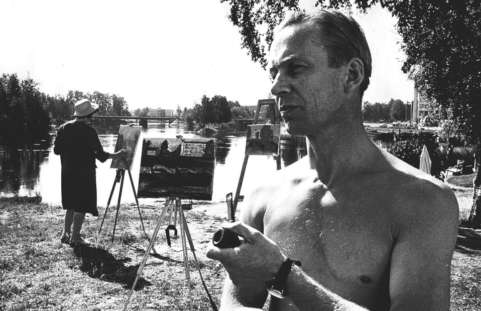 Photograph of the Finnish painter Mauri Favén (1920–2006).